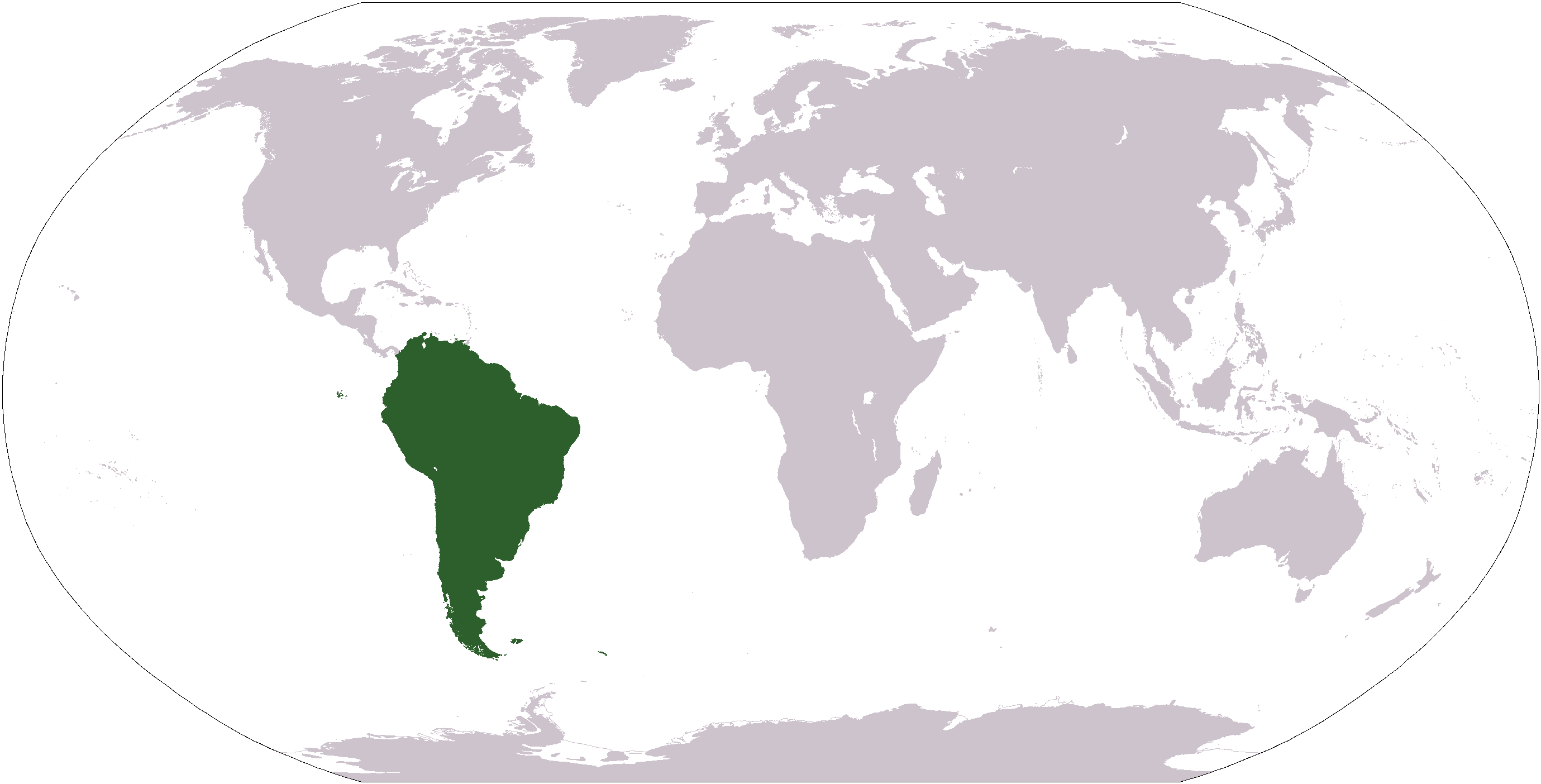 World map depicting South America